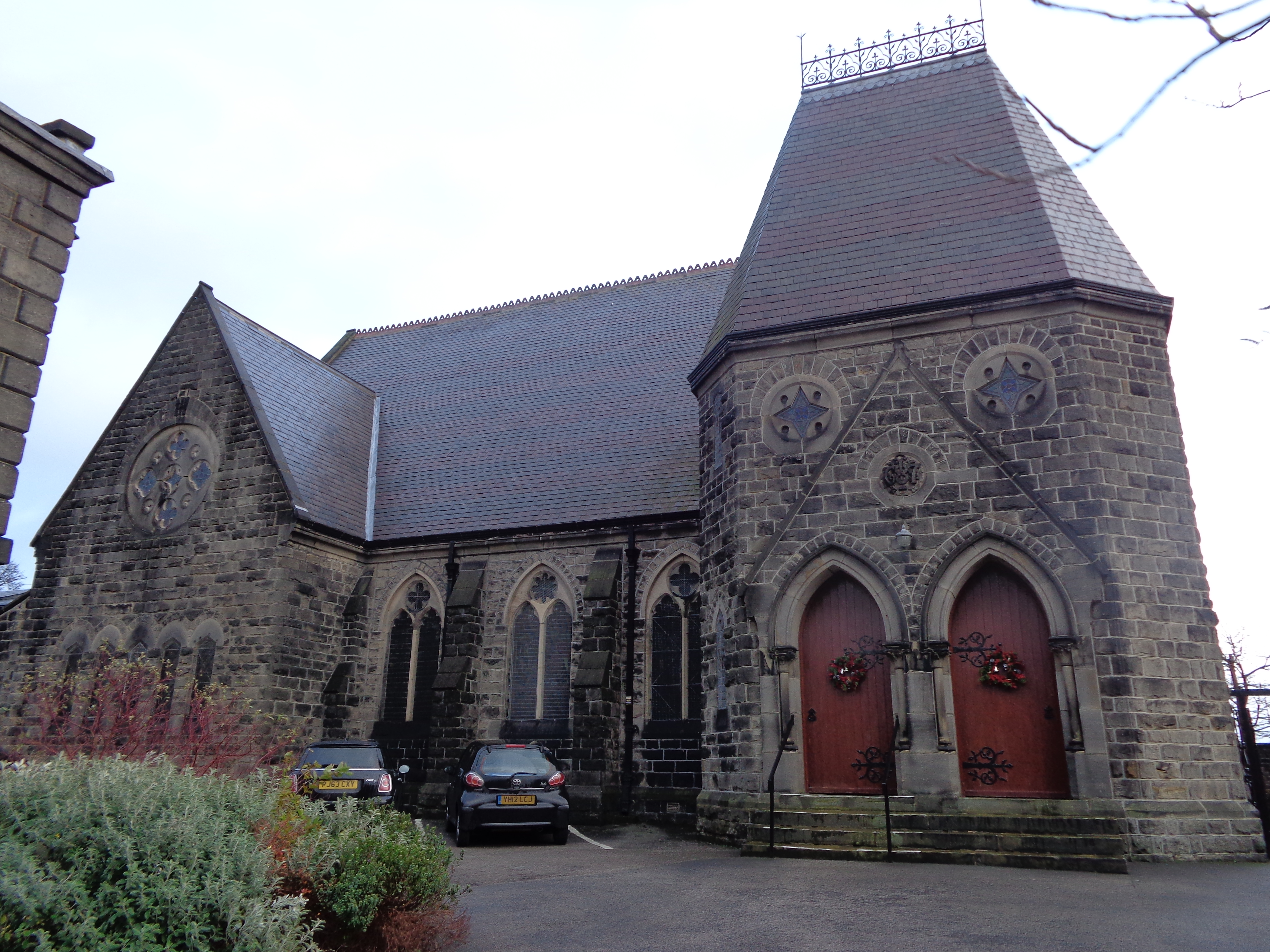 Grove Methodist Church, Horsforth, Leeds, West Yorkshire. Taken on the afternoon of Monday the 30th of December 2013.